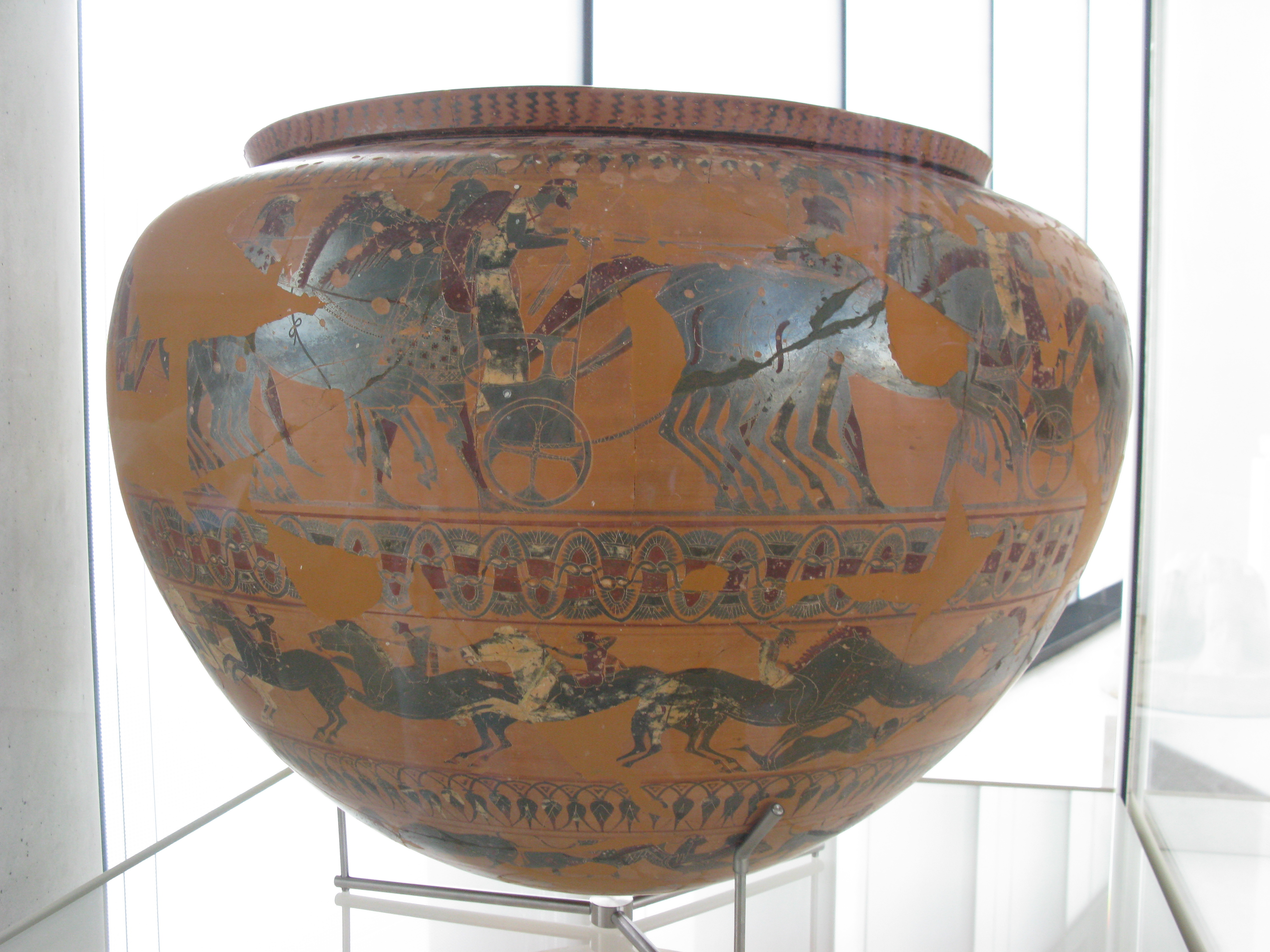 Attic black-figure name vase (Lebes) of the Painter of Athens 606 dedicated to the Goddess Athene at the Acropolis of Athens; main zone. Combat between different chariots and hoplits over a dead warrior body, in the backround fighting warriors; secondary zone: battle between greek and phrygians (with archers) cavalry; other zones: floral motifs and animals; on the bottom six protomes of horses and lions in a whirligig; about 570/560 BC.; Acropolis New Museum.